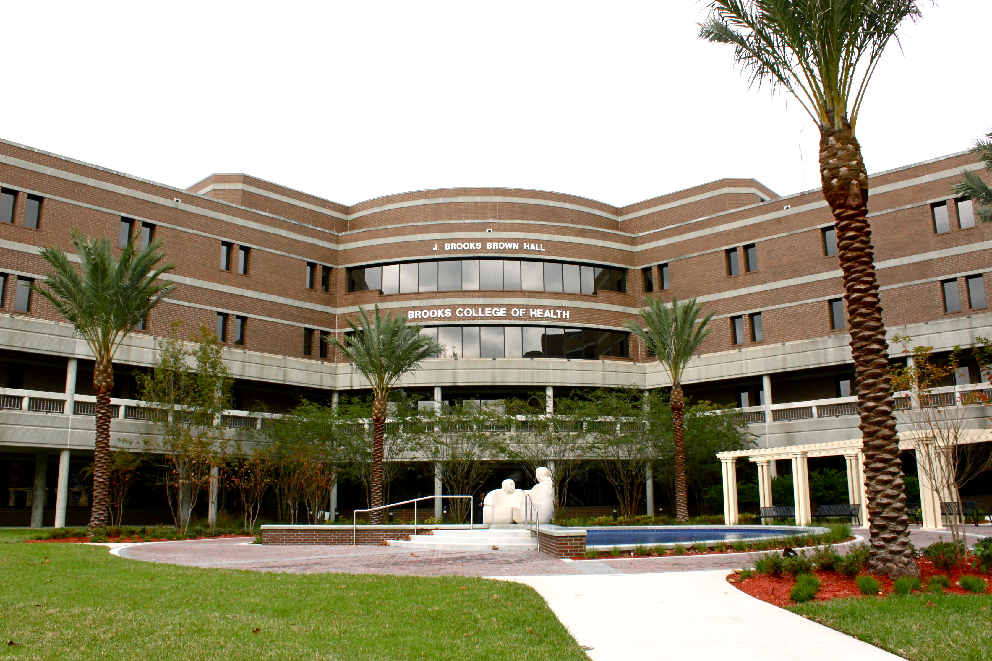 The College of Health building (Brooks Brown Hall) at the University of North Florida.